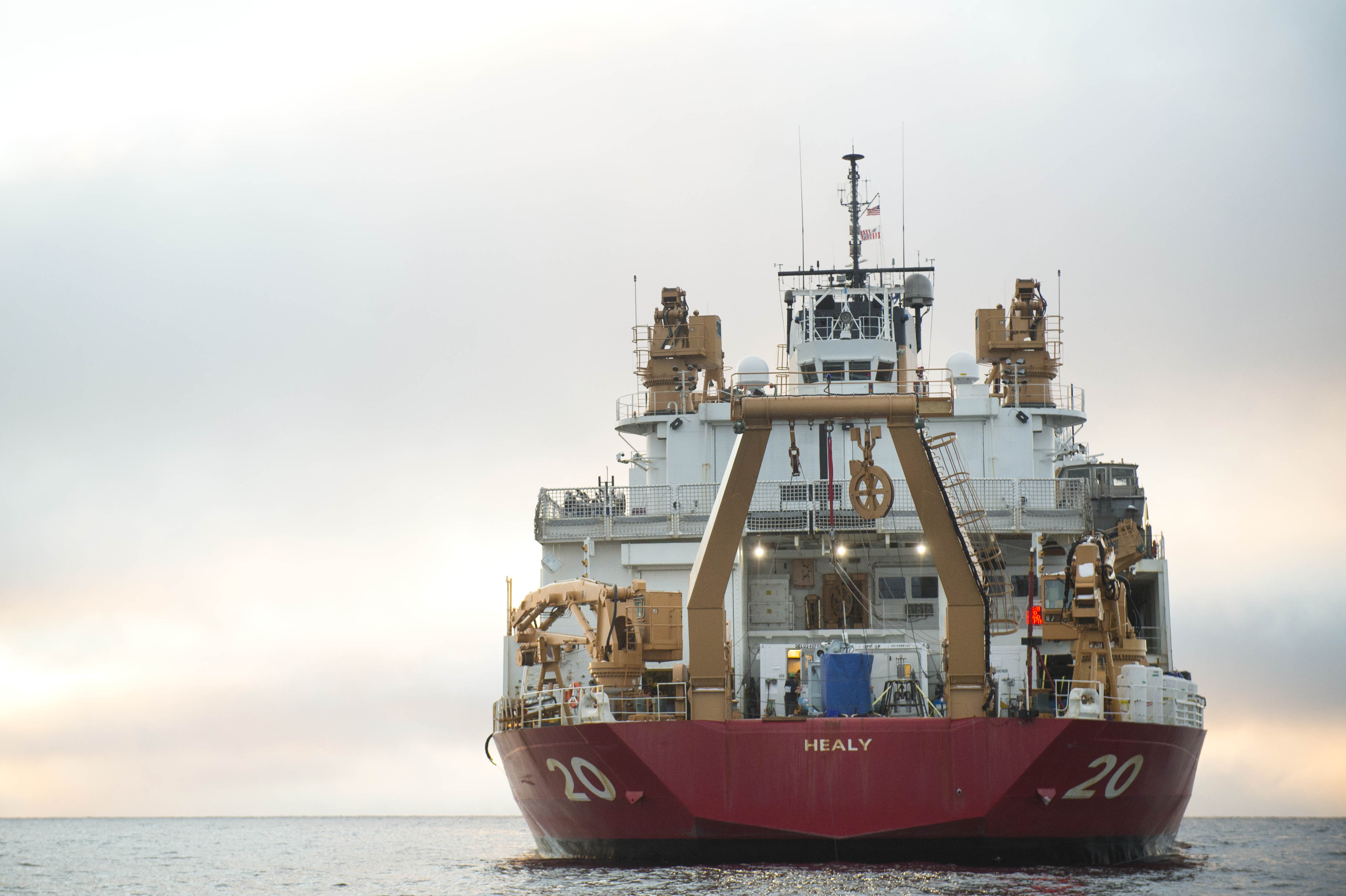 An aft view of USCGC HEALY and its A-frame.